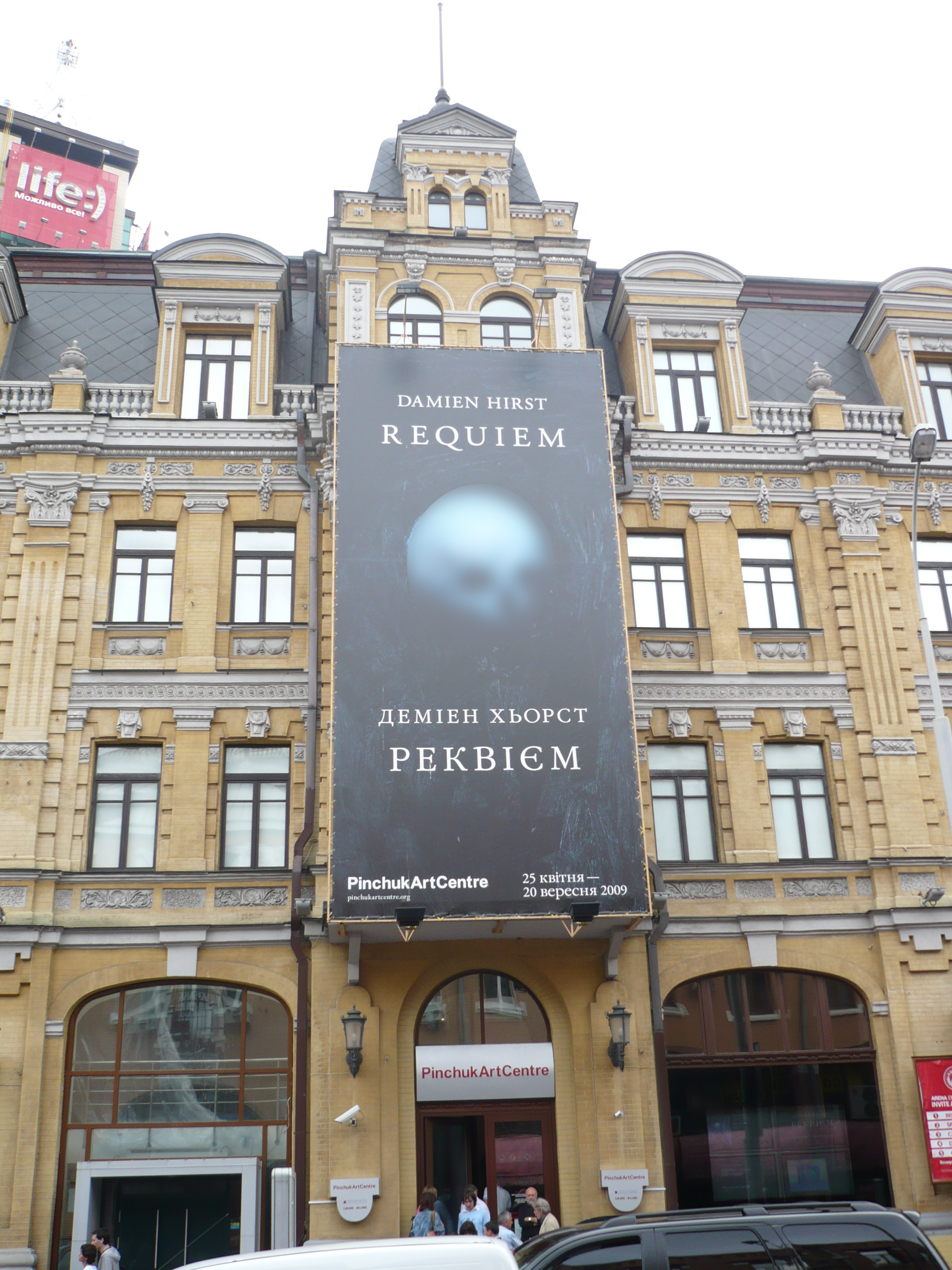 PinchukArtCentre in Kiev, Ukraine.